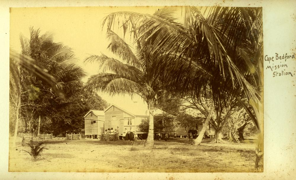 Cape Bedford Mission Station. Pupils and teachers outdoors at the Cape Bedford Mission, settled by the Lutherans north of Cooktown.